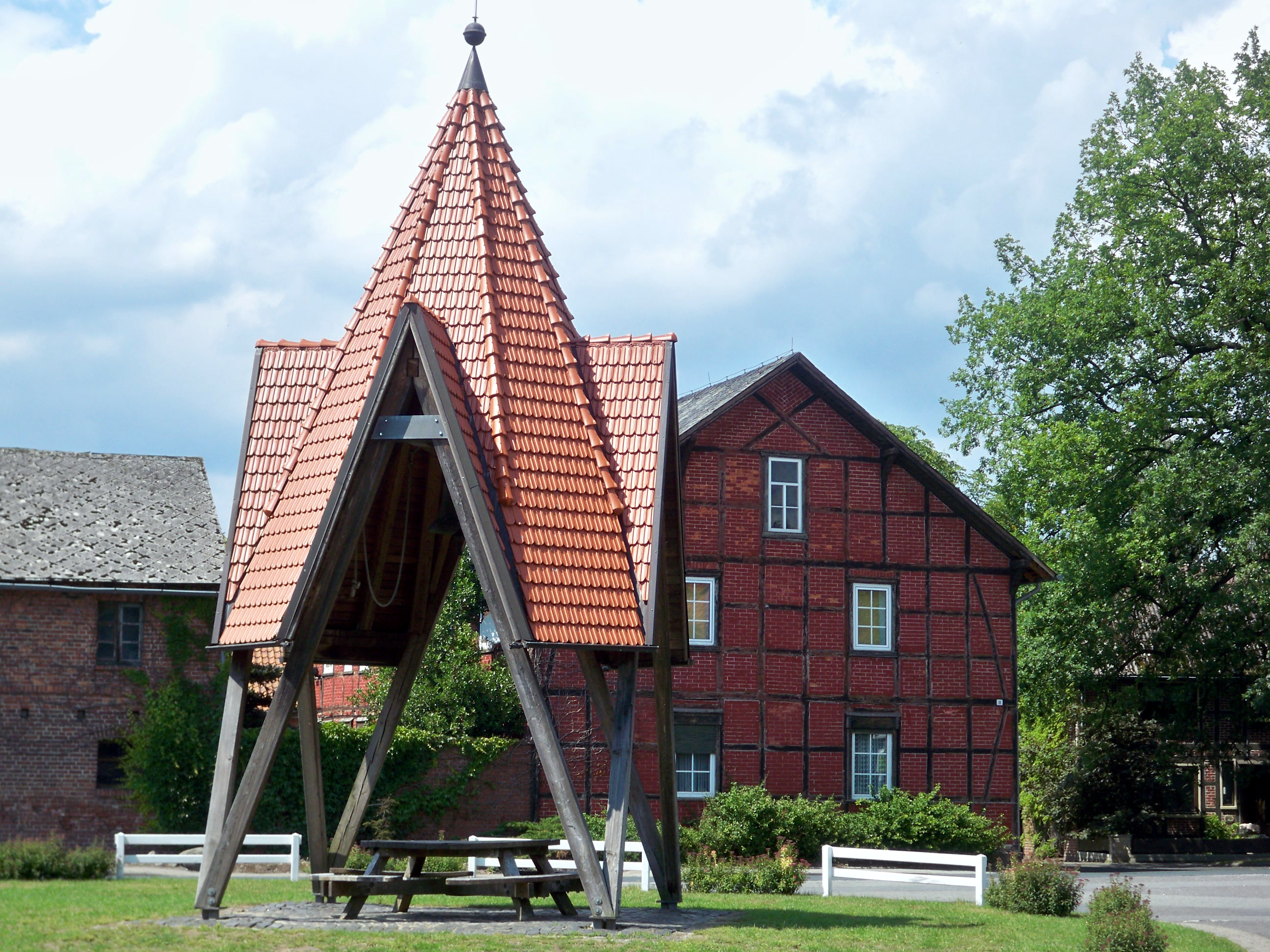 Croya, Lower Saxony, Bell tower